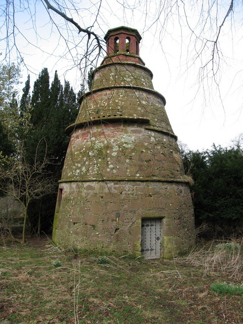 Doocot at Nunraw, near Gavald. In grounds of Nunraw, Cistercian monastic community in Scotland, near Garvald.